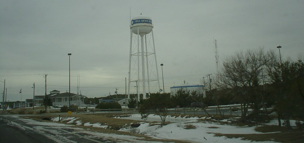 Water Tower at Kill Devil Hills, North Carolina, USA. Close to the Wright Brothers National Memorial.